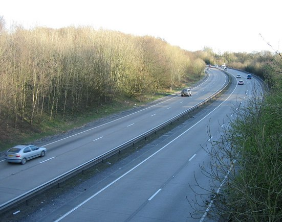 View from The Drope Road bridge. Looking south east along the A4232 from The Drope Road bridge towards the Culverhouse Cross Junction.